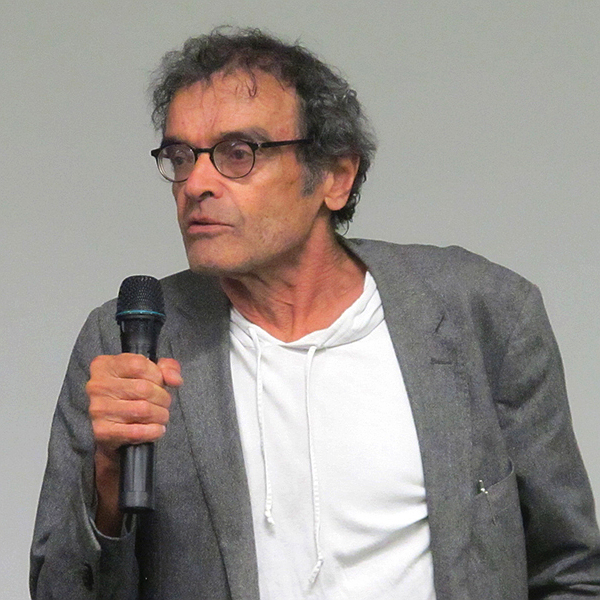 German filmmaker Harun Farocki (1944—2014) in Moscow